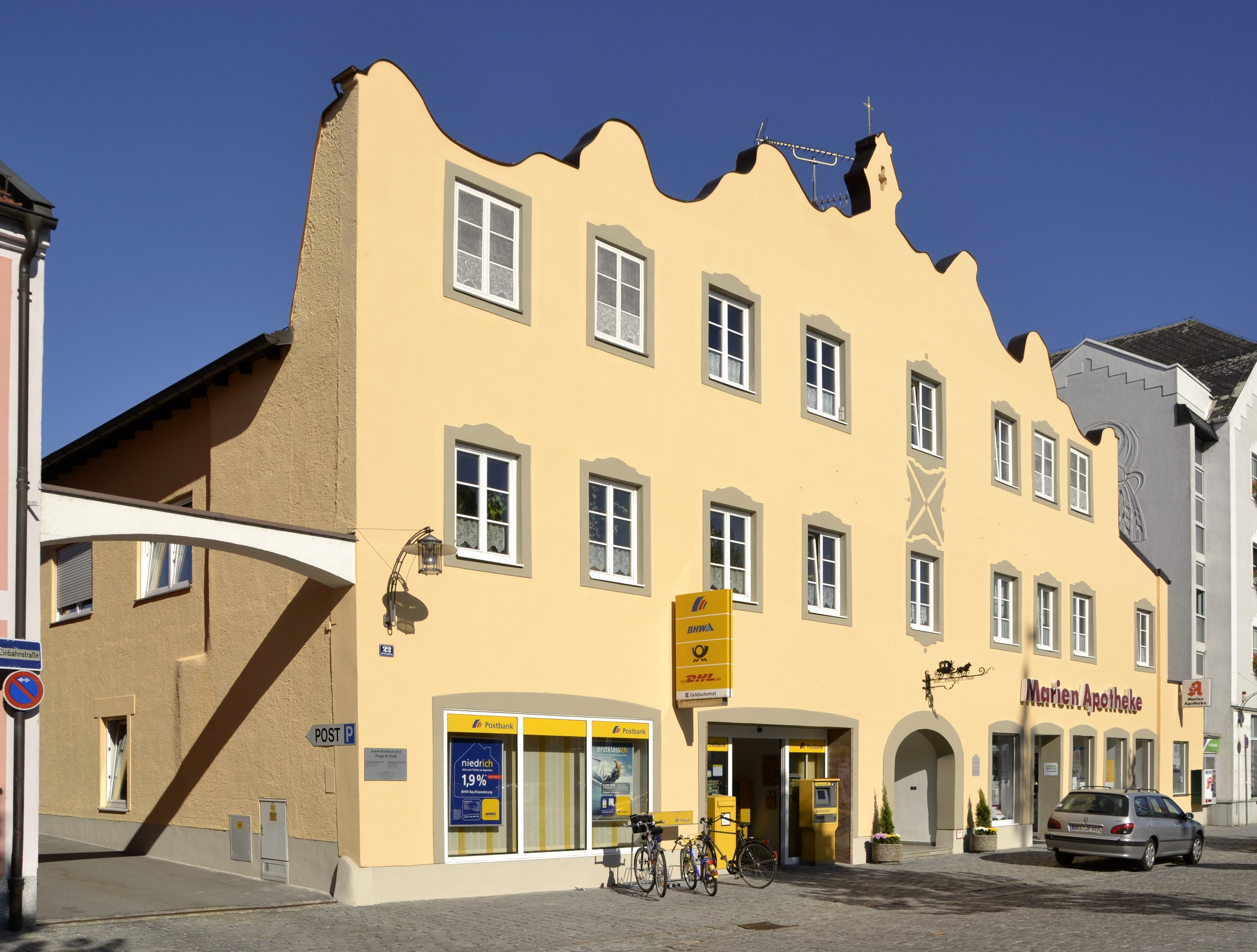 The cultural heritage monument Preysingplatz 22 in Plattling, Bavaria.